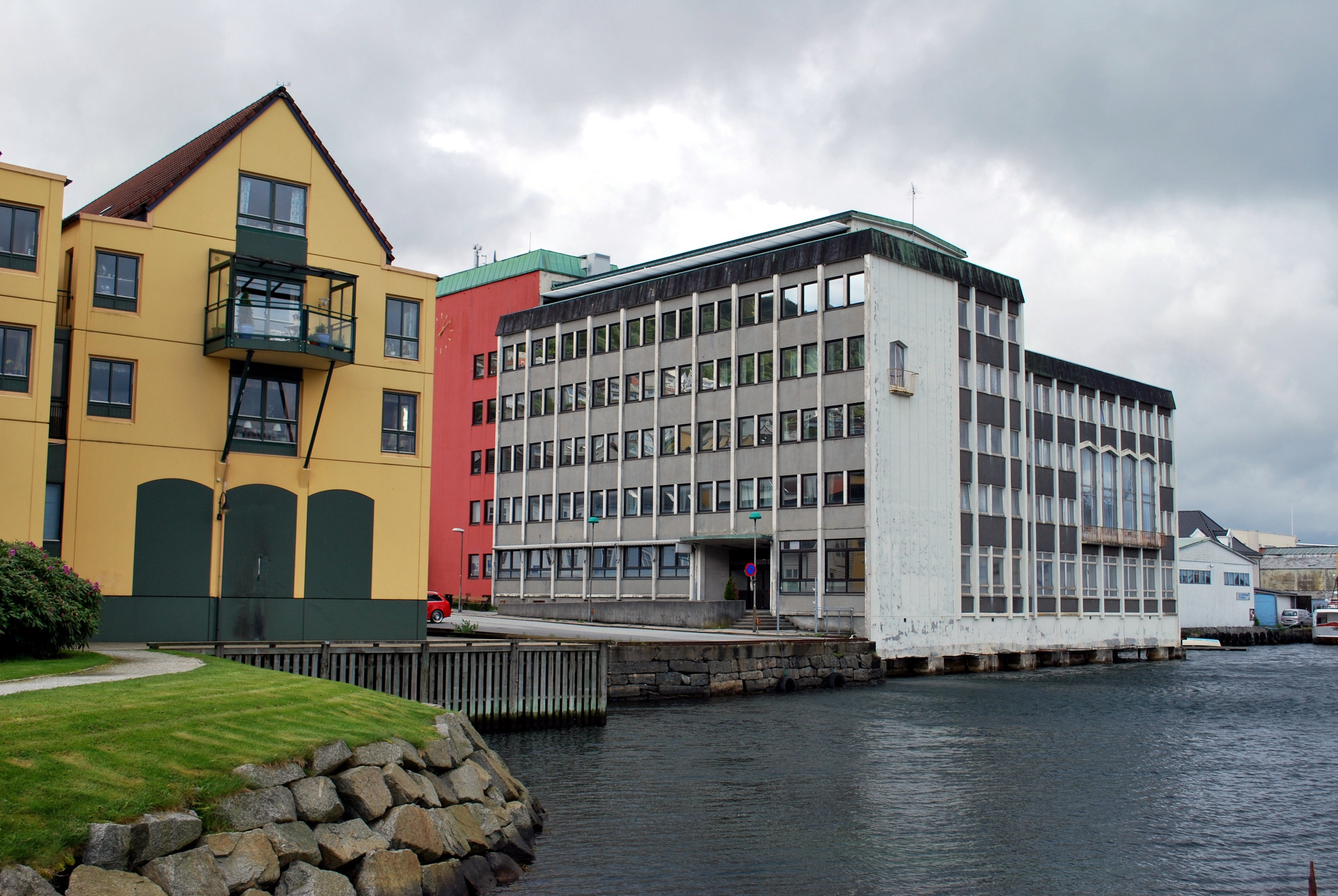 Buildings at watefront in Lakesvåg, former municipal building at right.